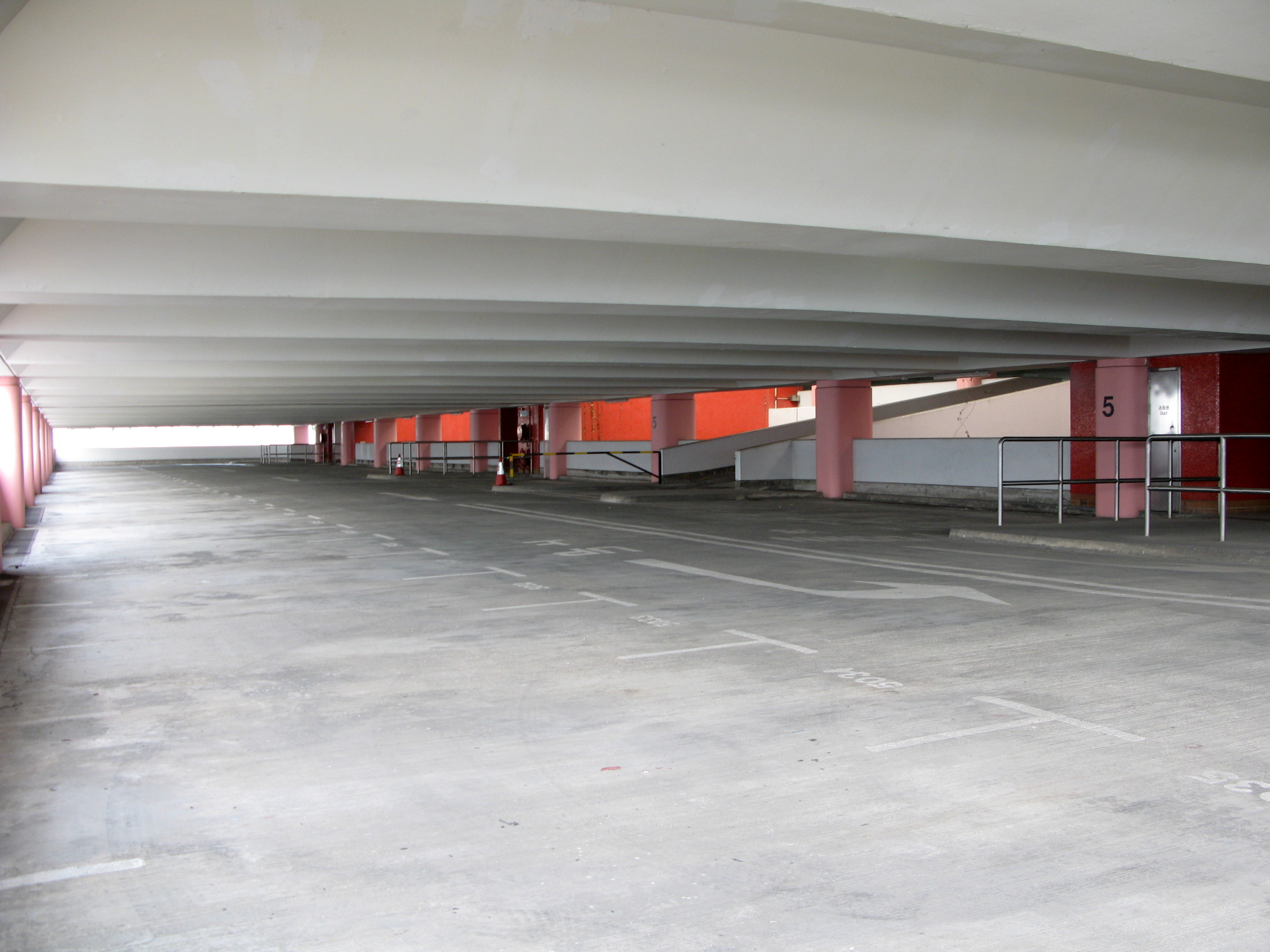 Tsuen Wan Transport Complex L5 Carpark